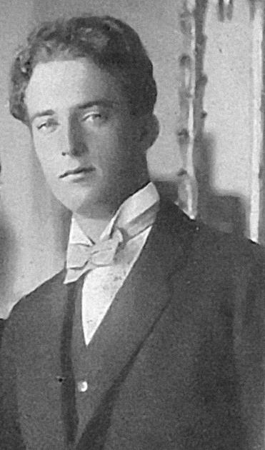 Prince Leopold III of Belgium.